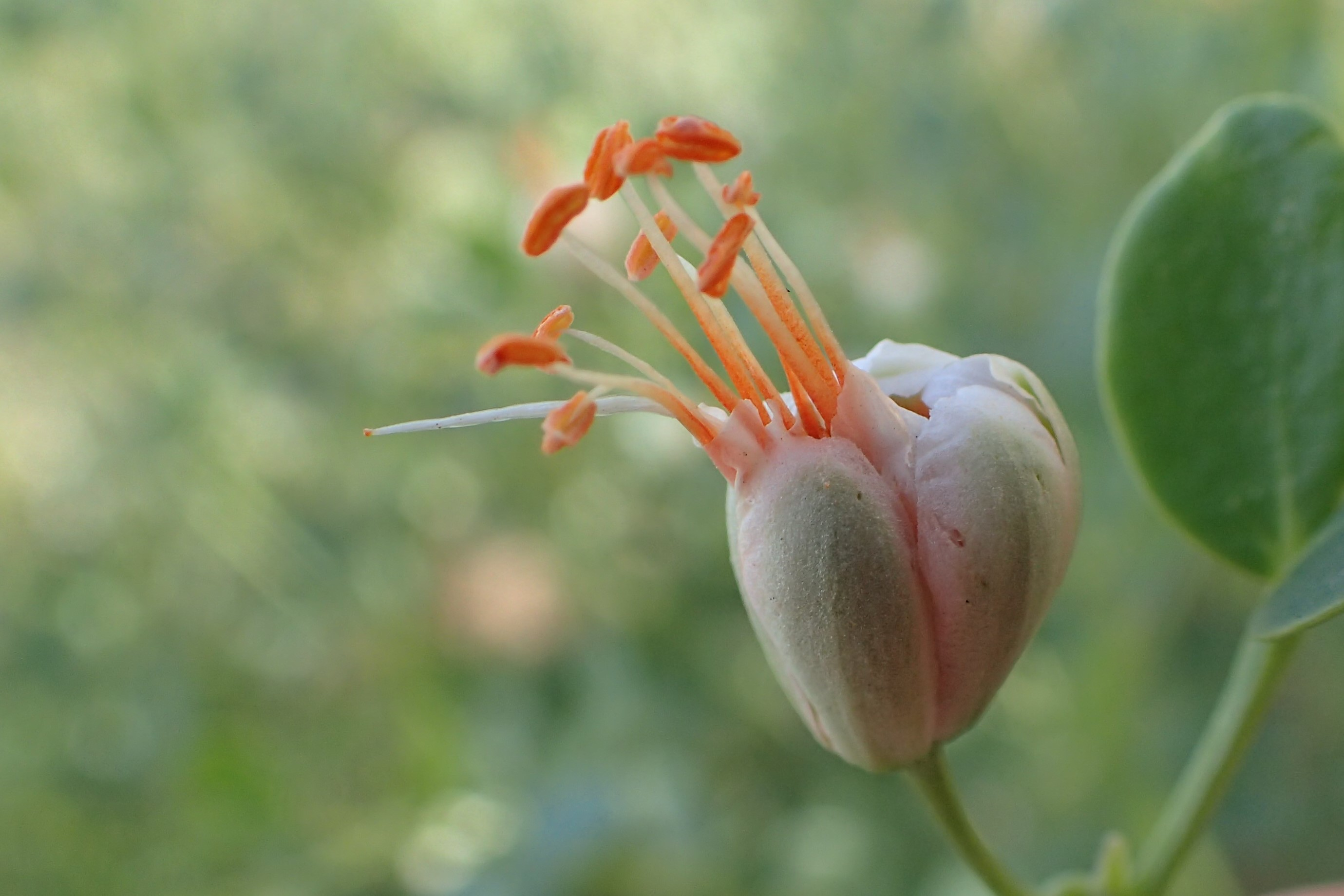 Zygophyllum fabago in Yerevan (Armenia)